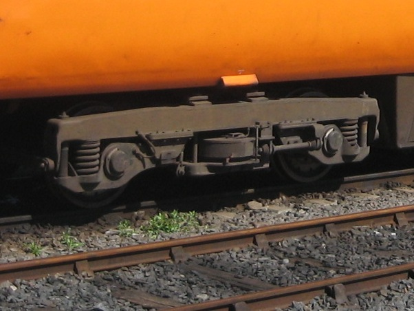 BT10 high speed railway bogie trucks used in Great Britain and Ireland. This example in on an Iarnród Éirann coach in the Irish Republic